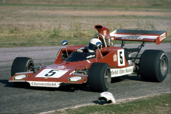 Kevin Bartlett and his Lola T300 at Surfers Paradise International Raceway for the Gold Star Series 27th August 1972, photo by Graham Ruckert.